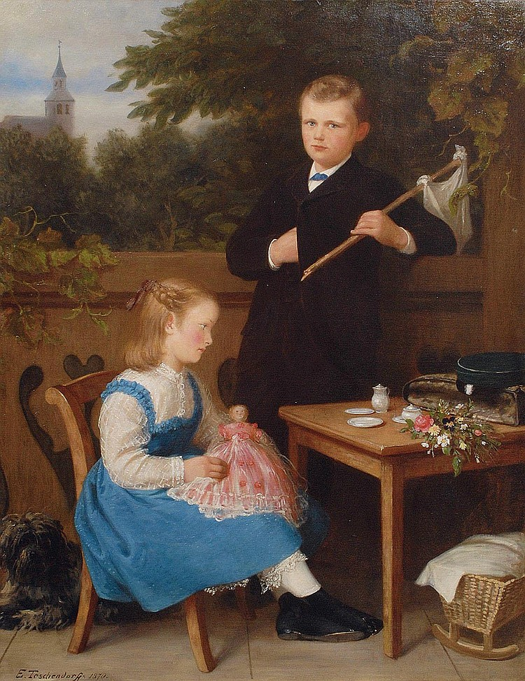 Siblings ("After the truce")